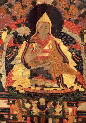 The Seventh Dalai Lama, Tsangyang Gyatso